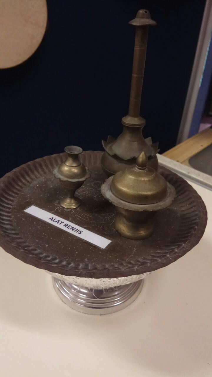 Alatan Merenjis